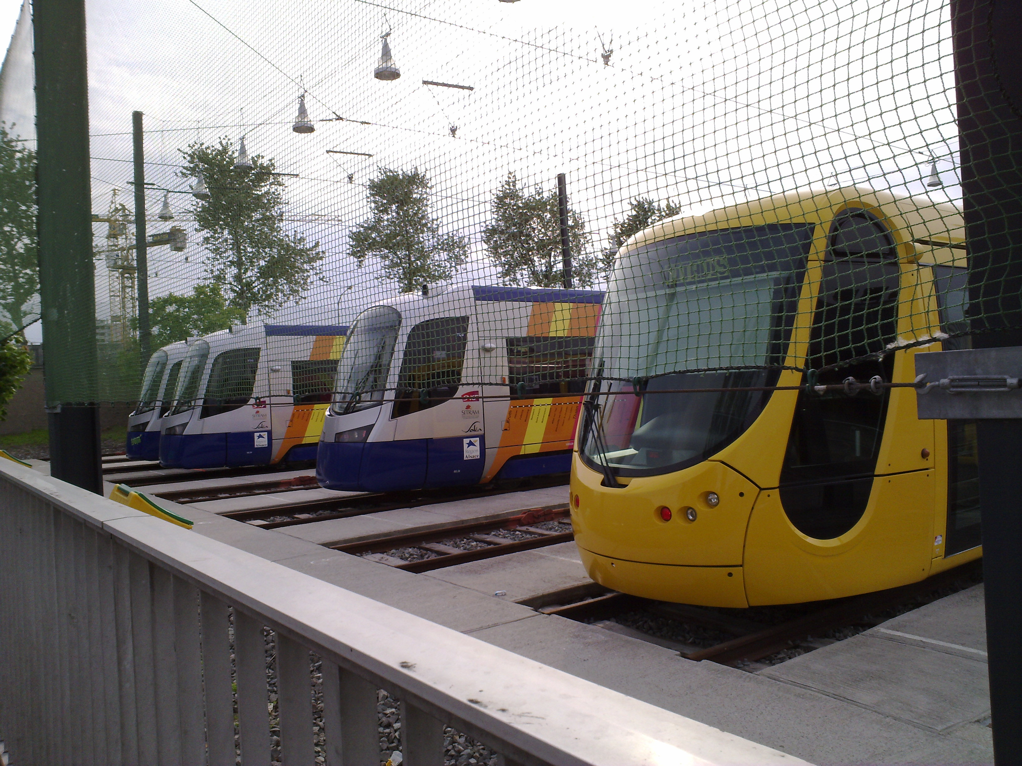 Front of some Avanto vehicles designed for The "Tram-Train Mulhouse-Vallée de la Thur" line, and front of a Citadis 302 vehicle designed for the Mulhouse tramway, parked at the Soléa depot.